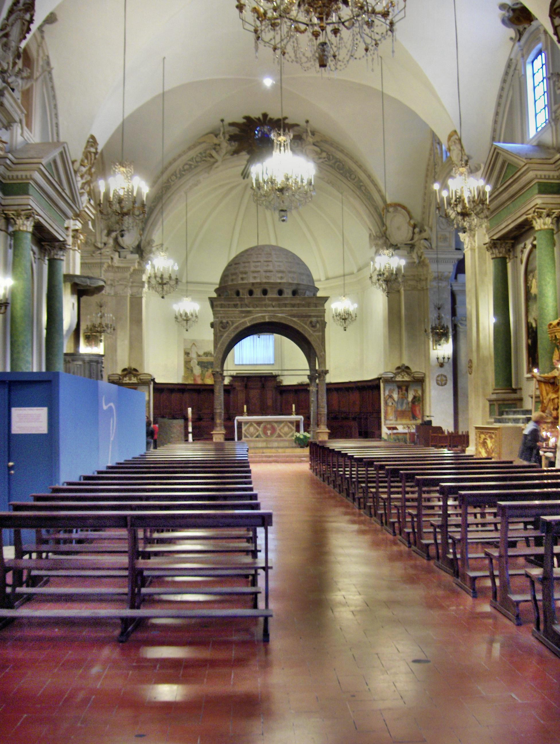 Nave and main altar in the church of Santa Maria Maggiore (13th-17th century), Spello, Italy.